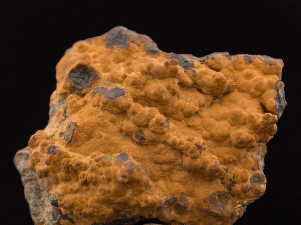 Limonite (goethite) from Montjuïc mountain, Barcelona